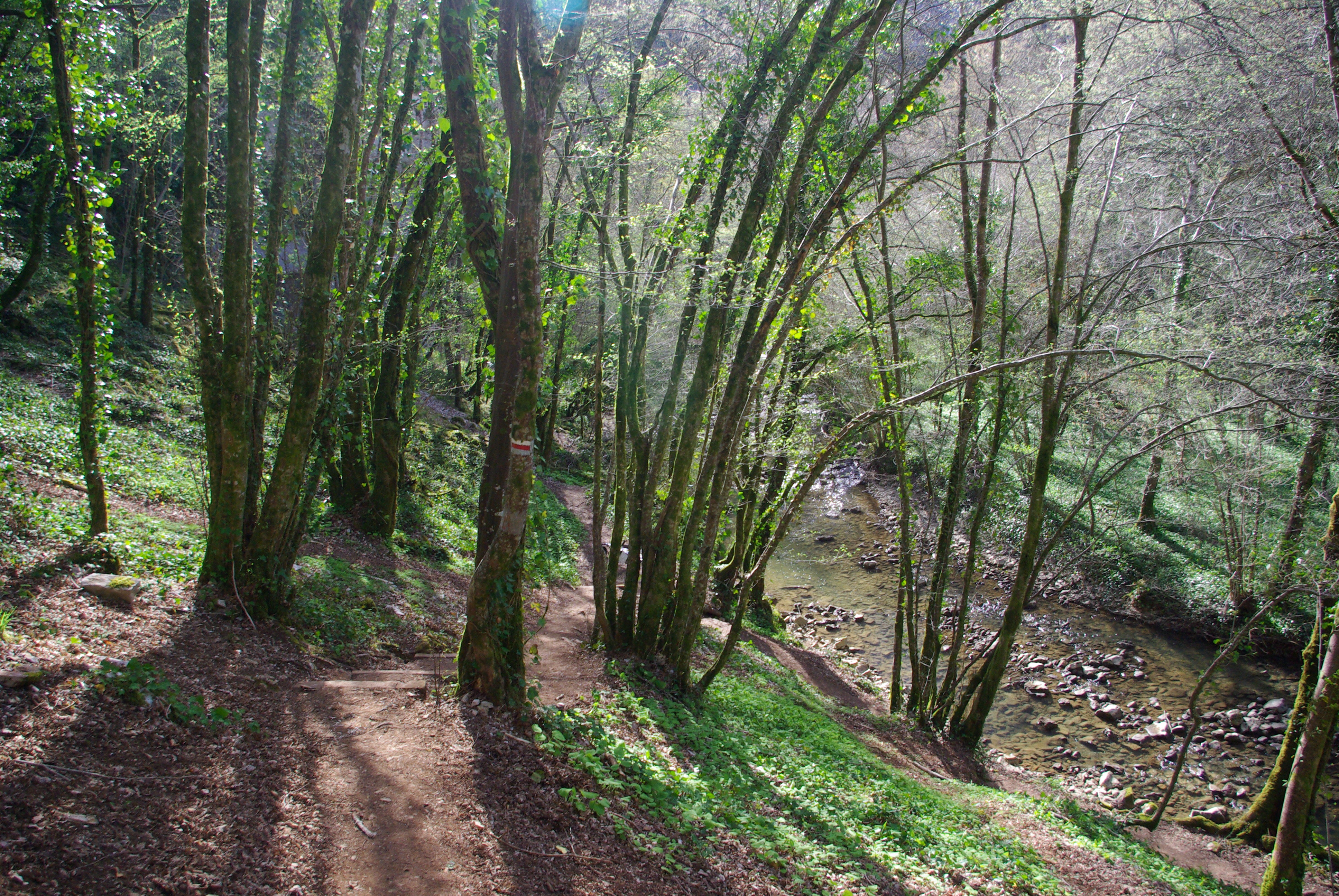 The GR65 path beside the Alzou river.